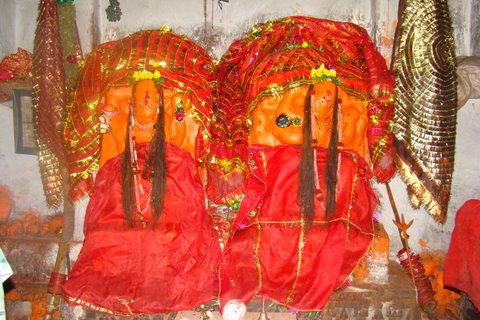 Hinglaj Mata temple at Hinglaj Fort in Mandsaur district in Madhya Pradesh, India